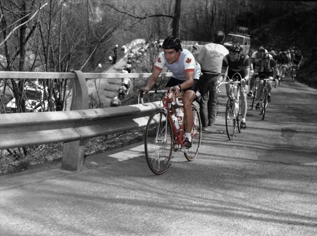 Gervais Rioux also represented Canada in major international events for over a decade, such as the Commonwealth Games in 1982 and the 1988 Olympics in Seoul.